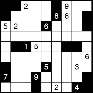 9x9 Str8ts Puzzle from the Str8ts Sample Pack (Diabolical/Very Hard)